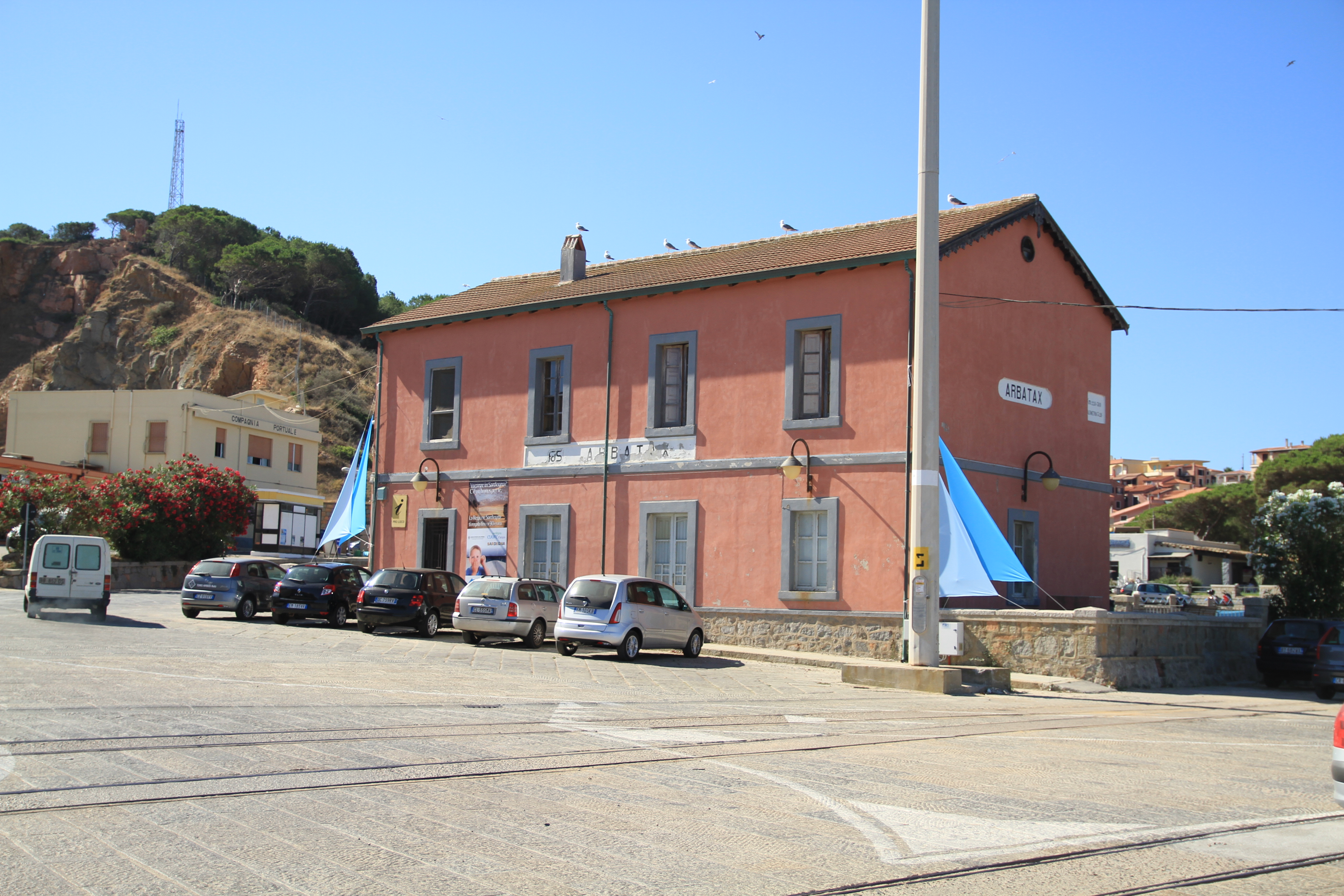 The passenger building of the Arbatax railway station in Tortolì, Sardinia, Italy